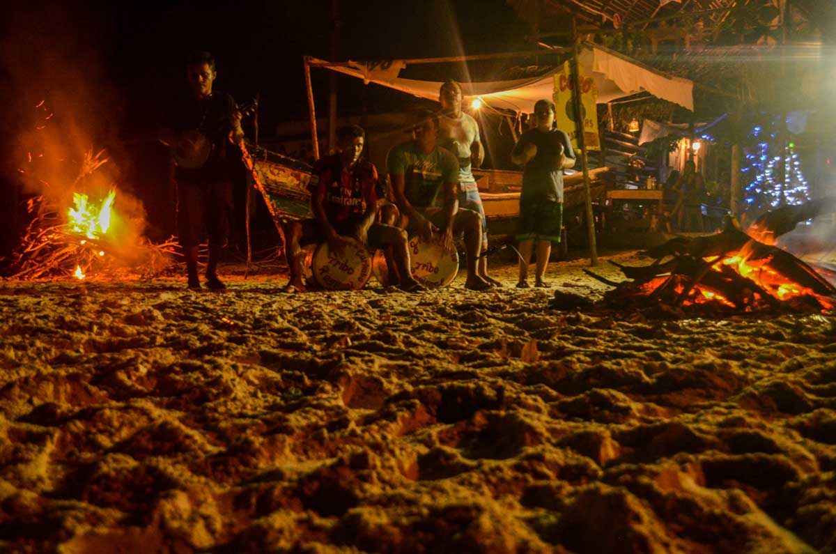 River Arm Between the village and the princess's beach.